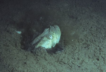 Wrymouth, Cryptacanthodes maculatus, photographed in its burrow at Terra Nova National Park in Newfoundland, Canada